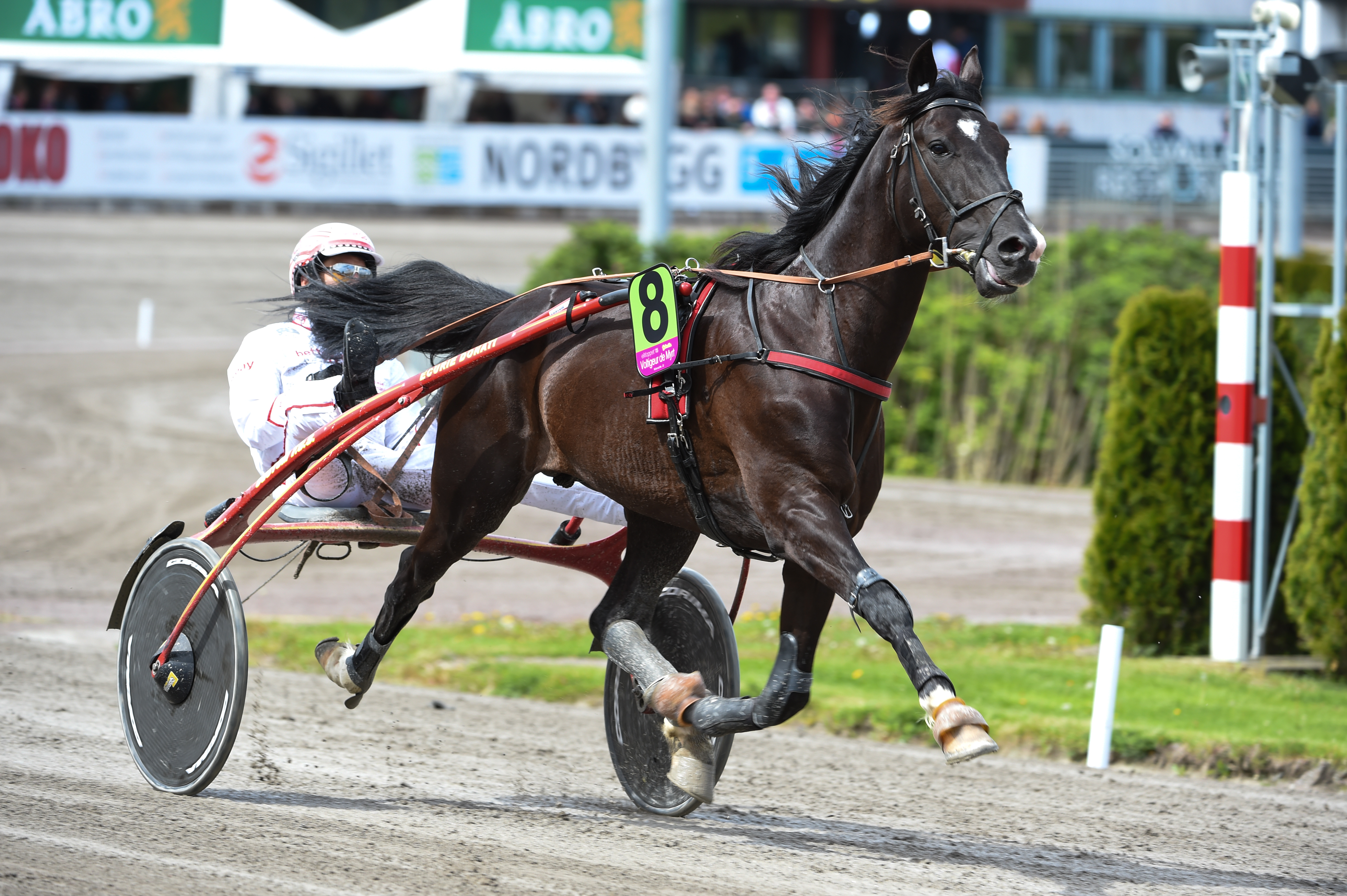 Voltigeur de Myrt, Elitloppet 2015.